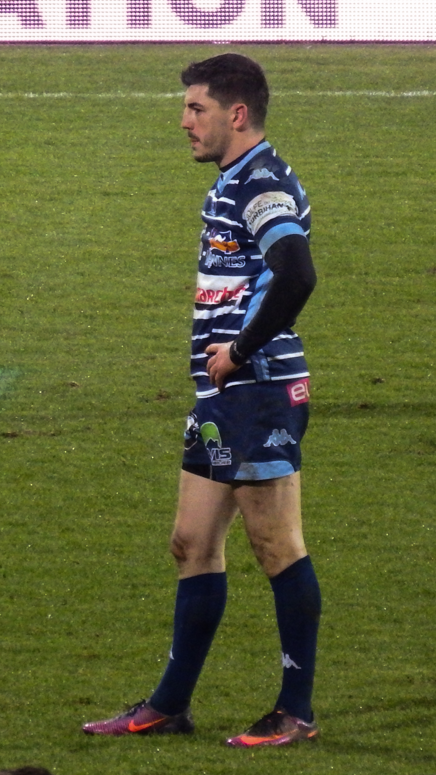 2016–17 Rugby Pro D2 season — 27 January 2017, stade de la Rabine. Match between: Rugby Club Vannes — US Dax